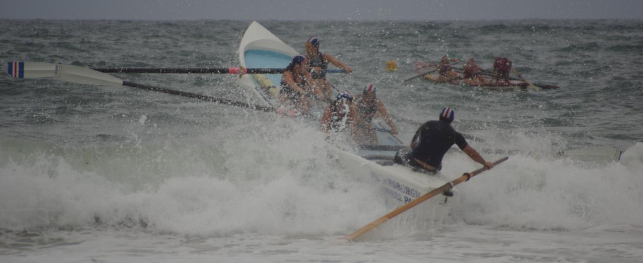 Snapshot at the surf boat competition in the Illawarra Branch surf carnival showing the boat of Stanwell Park Surf Life Saving Clubs traversing a breaking wave.